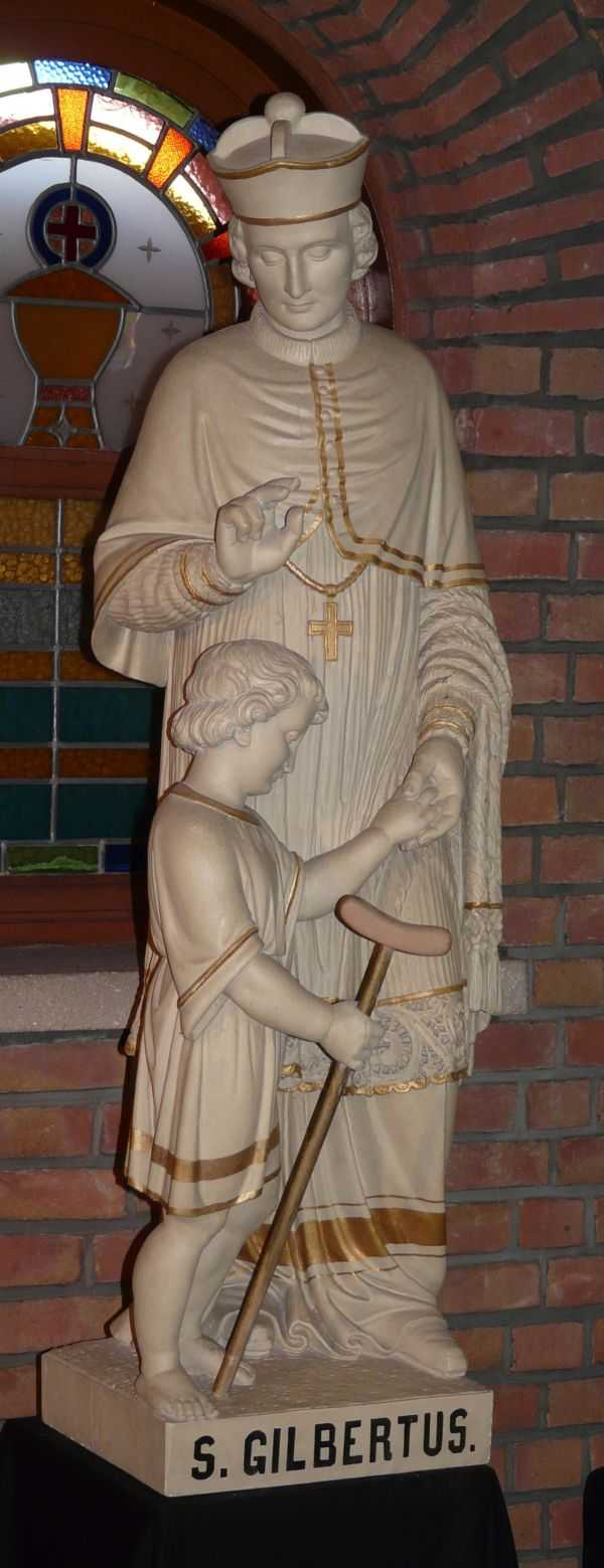 St. Gilbert of Sempringham, sculpture at Essen (Belgium)